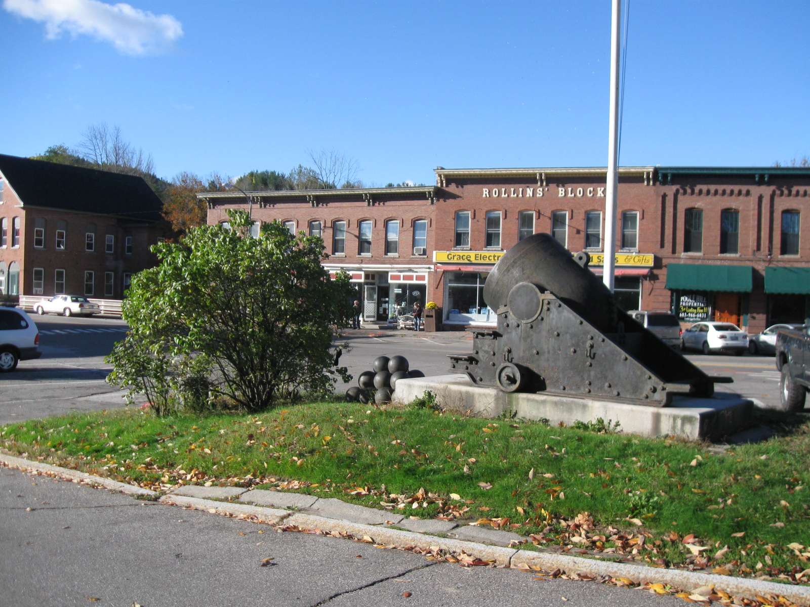 American Civil War monument in Central Square of Bristol